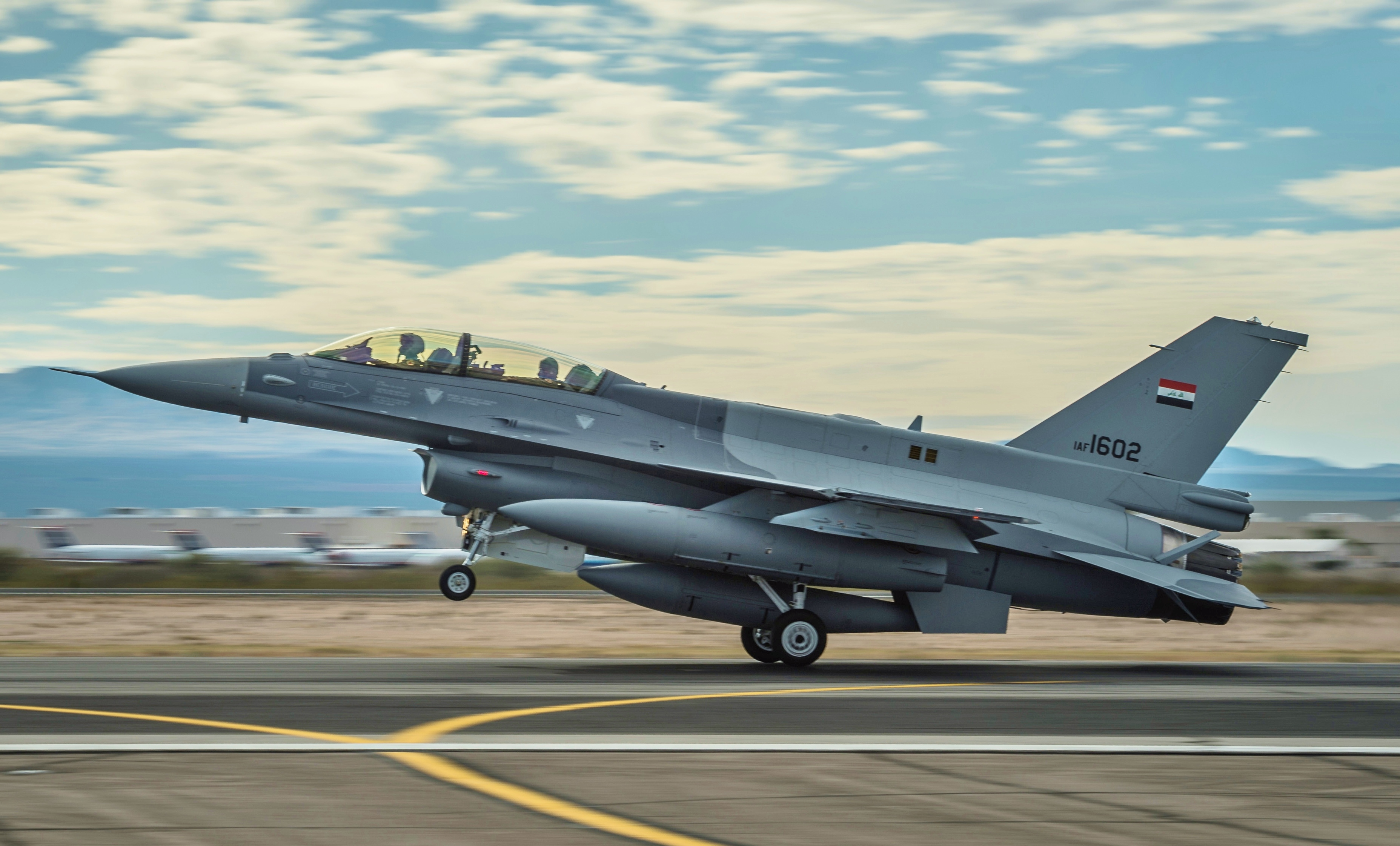 Lt. Col. Julian Pacheco and Iraqi air force captain Hama land one of the IAF's new F-16 Fighting Falcon aircraft Dec. 16, 2014, at the Tucson International Airport, Ariz. Due to the current security situation in Iraq, the IAF pilots will complete their training in their own aircraft in the U.S.